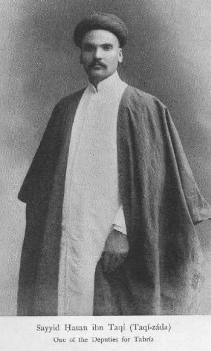 Sayyed Hasan Taqizadeh (1878-1970), Iranian politician and diplomat.